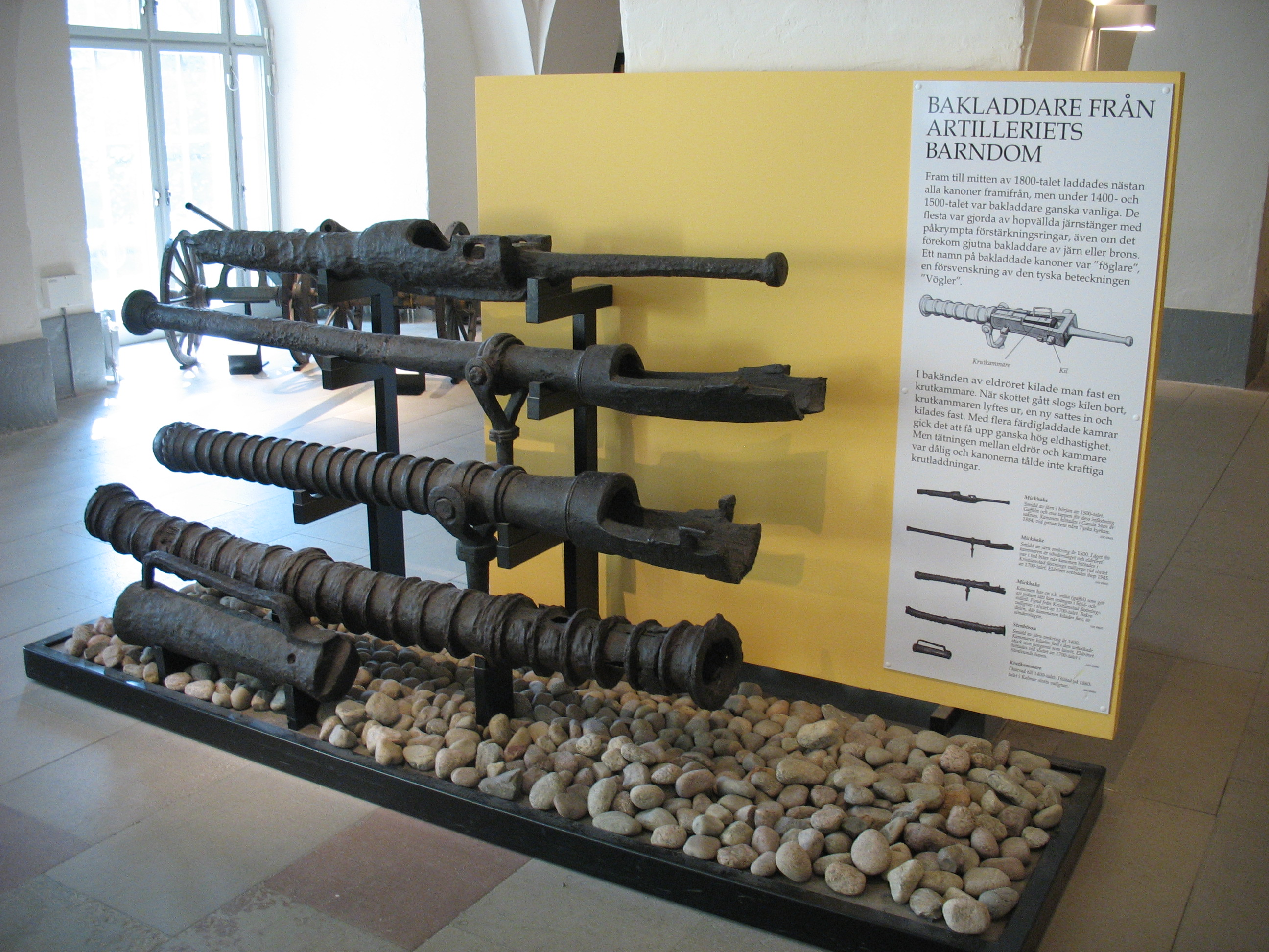 Early examples of breech loading artillery from the 15th to the 16th century on display at the Army Museum in Stockholm. A translation of the main caption is as follows: BREECH LOADERS FROM THE EARLY HISTORY OF ARTILLERY Until the middle of the 19th century almost all cannons were loaded from the front, but during the 15th and 16th century, breech loaders were fairly common. Most were made of welded iron bars fitted with reinforcing iron rings that have been shrunk around the bore, though breech loaders cast in iron or bronze were also produced. A name [in Swedish] for breech loading cannons were "föglare", a Swedish rendition of the German term "Vögler". Gunpowder chamber Wedge In the back of the bore a gun powder chamber was wedged shut. After the cannon had been fired, the wedge was knocked loose [by the crew], the chamber was removed, a new one inserted and wedged shut. With several prepared chambers, the fire rate could be quite high. However, the seal between the chamber and the bore was not good and the cannons could not withstand powerful charges.